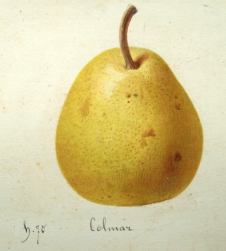 Colmar (pear)